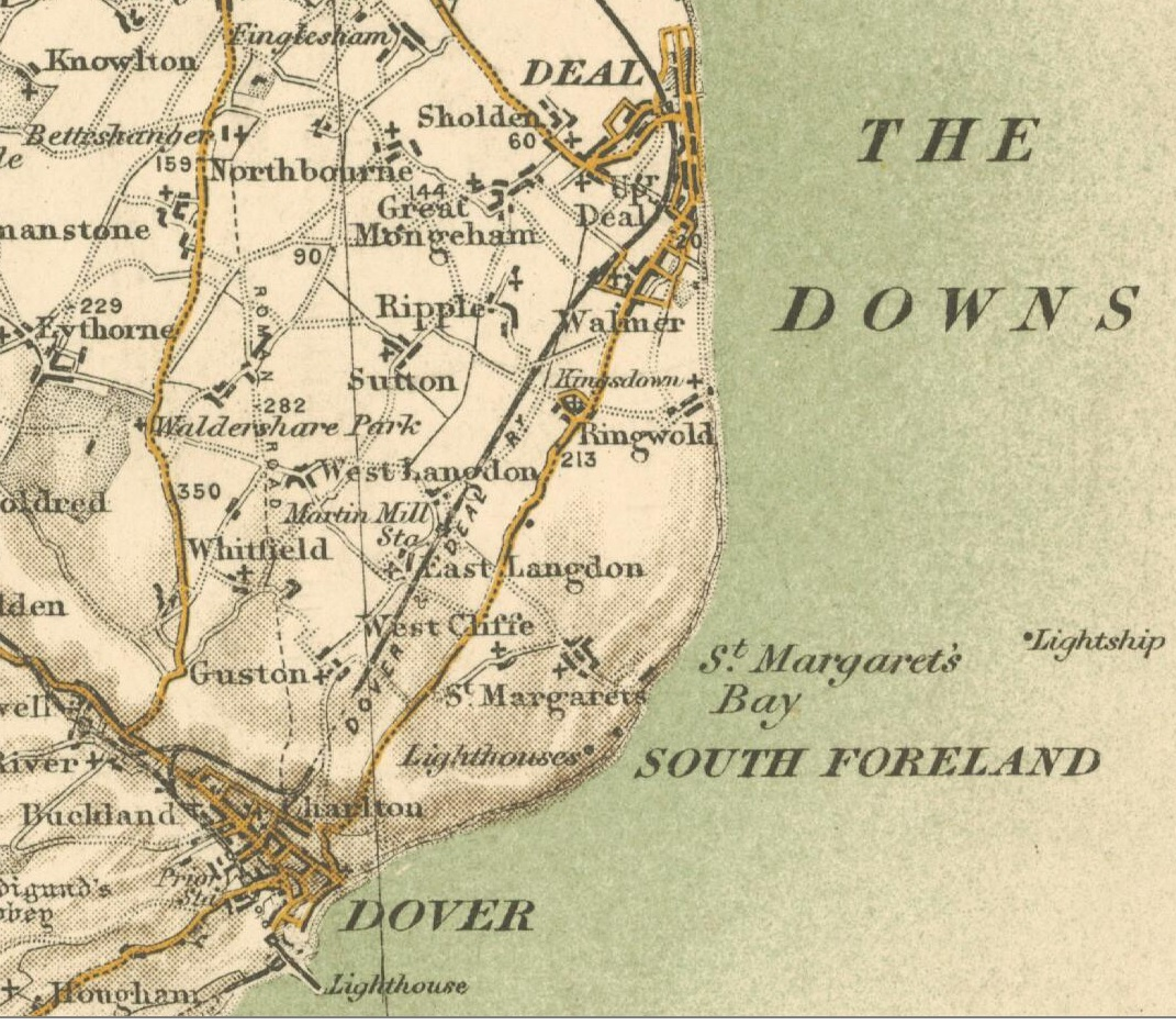 The map shows the location of Sutton in Kent and its surrounding areas, according to 19th century data.